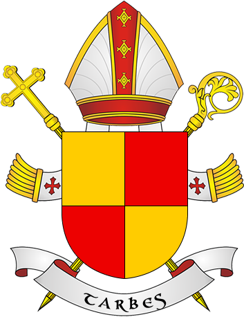 Coat of Arms of Roman Catholic diocese of Tarbes in France.